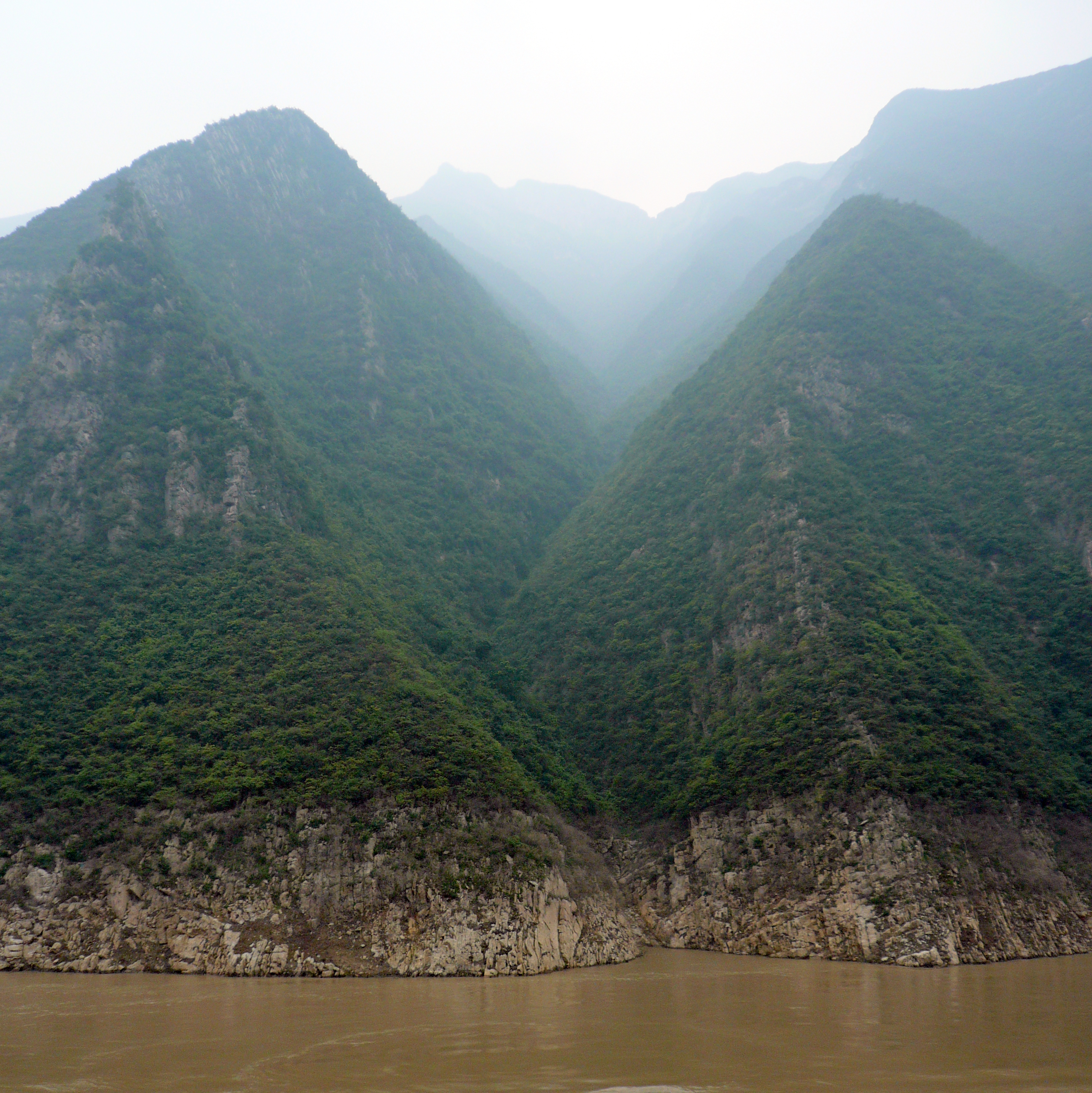 The Three Gorges